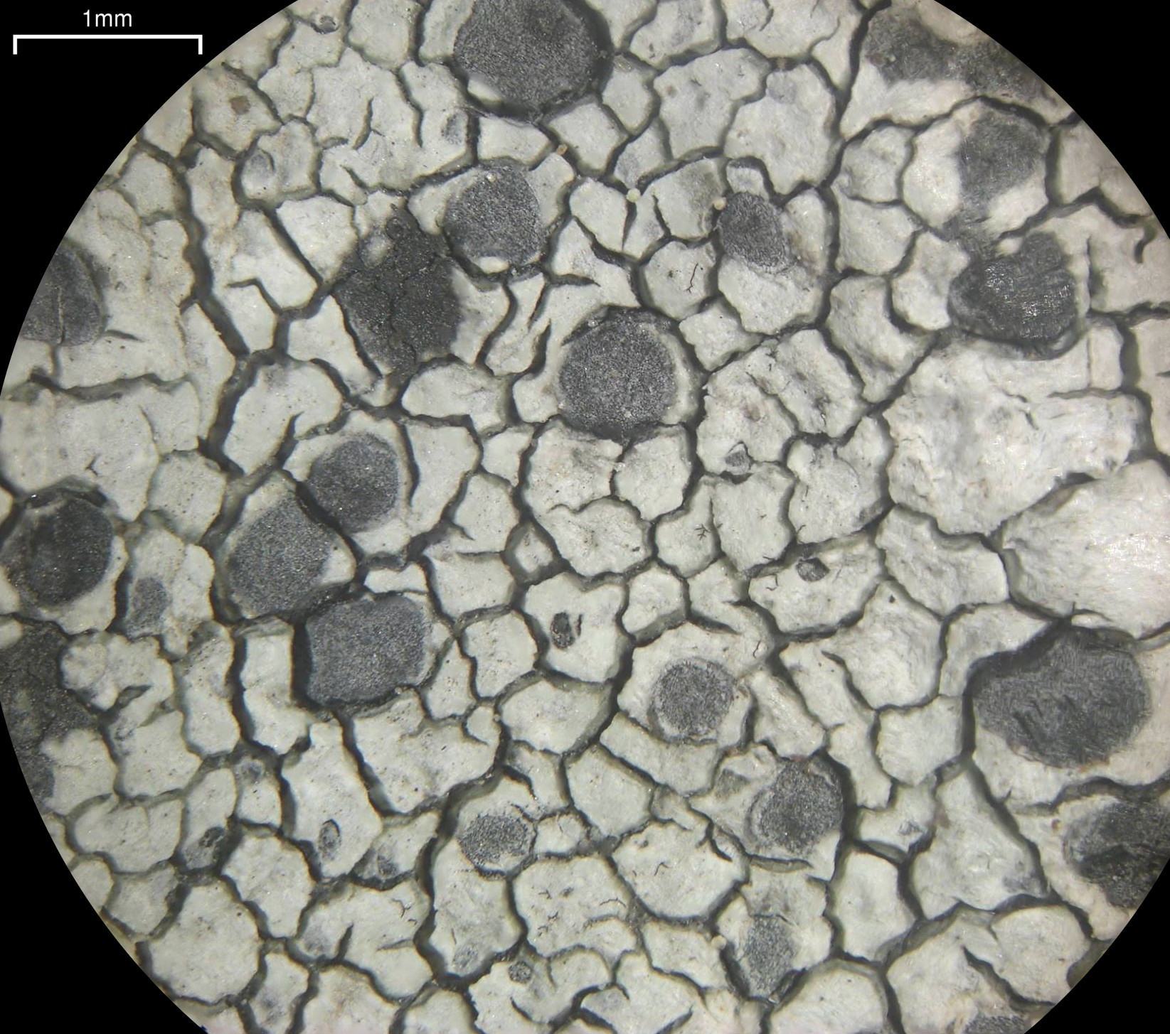 The lichen Lecanora oreinoides (Körber) Hertel & Rambold at 30X magnification; specimen photographed in Purchase Knob, Great Smoky Mountains National Park, Haywood Co., North Carolina, USA.